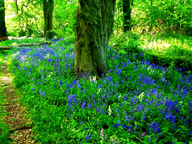 From my own collection